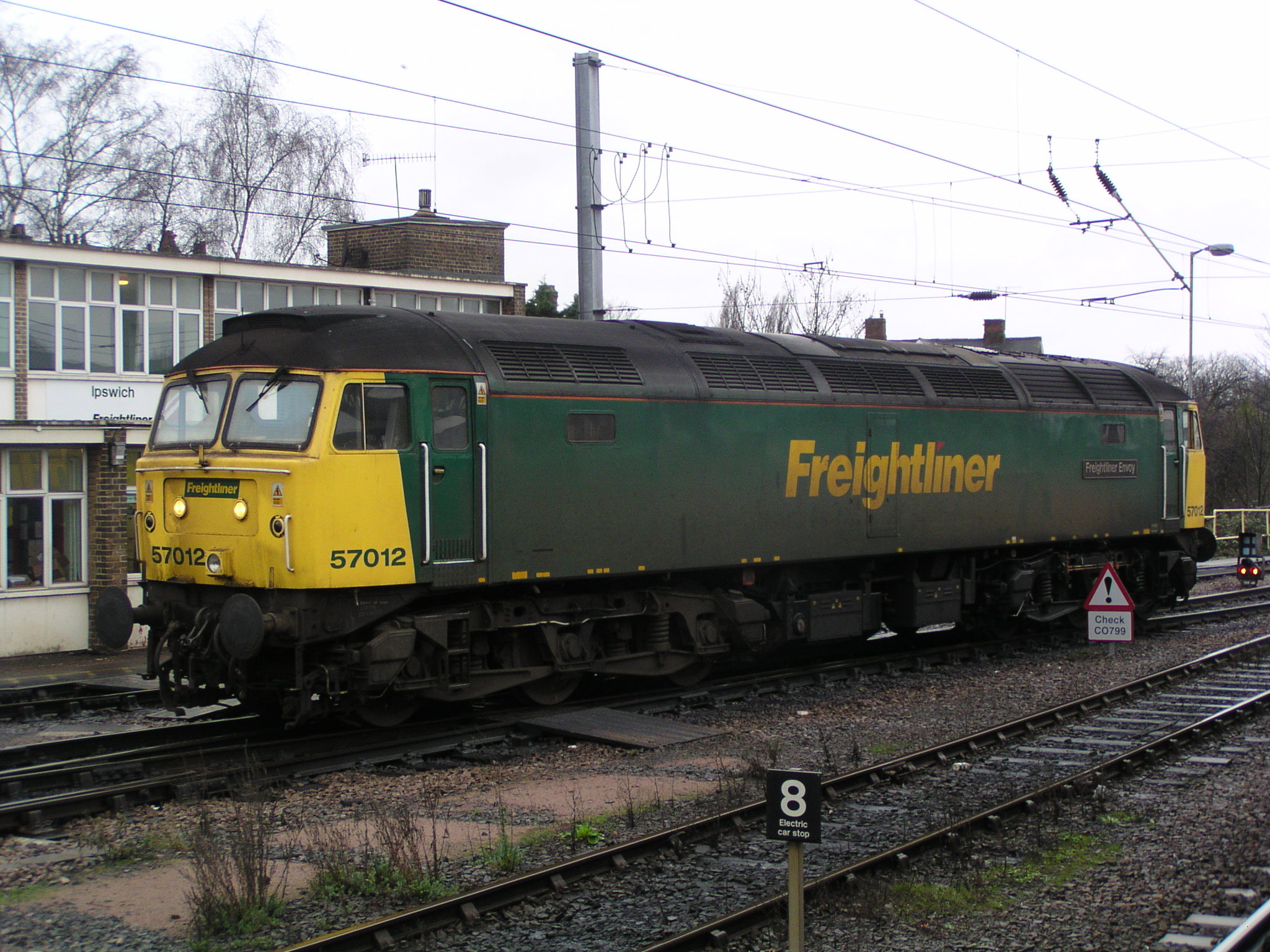 BR Class 57, no. 57012 Freightliner Envoy, at Ipswich on 31st January 2004.